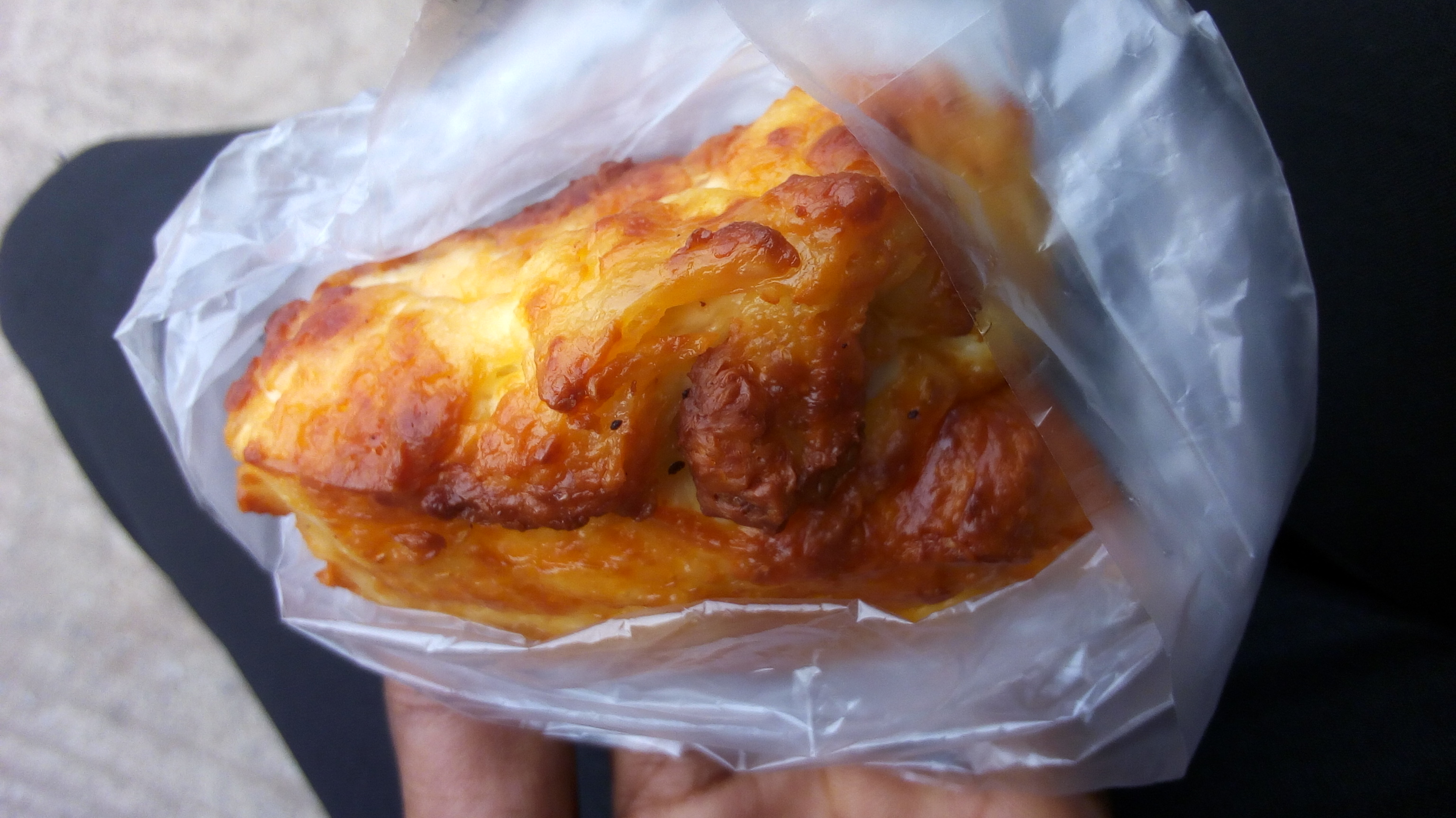 Wagashi or waagashi also known as Farmer's cheese in other part of the world. It is made by adding rennet and bacterial starter to coagulate and acidify milk.